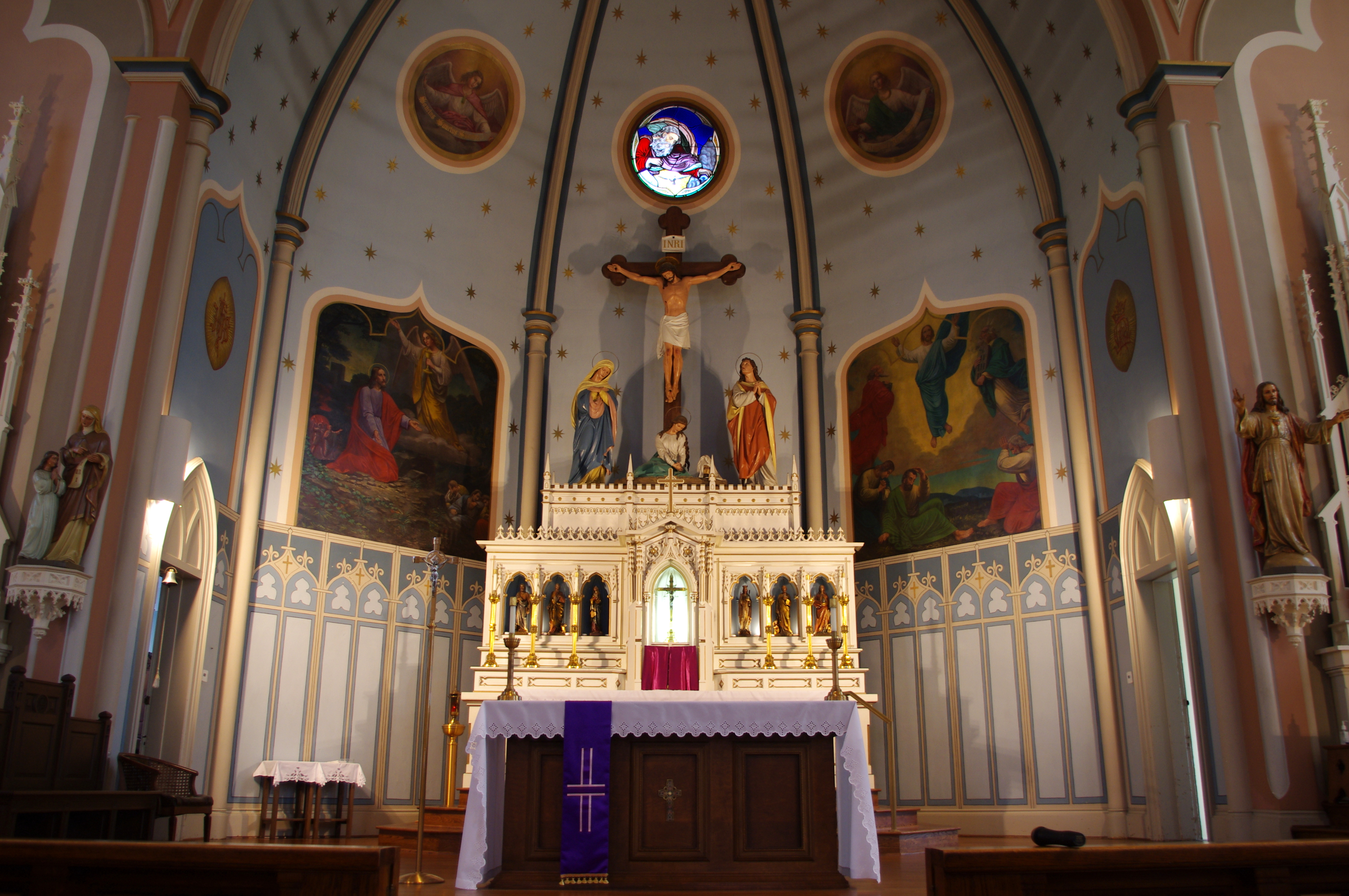 Holy Cross Catholic Church (Columbus, Ohio) - interior, sanctuary decorated for Laetare Sunday